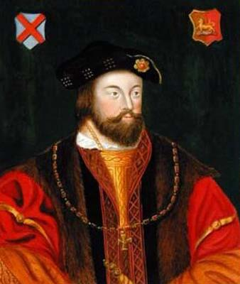 Thomas FitzGerald, 10th Earl of Kildare, c. 1530